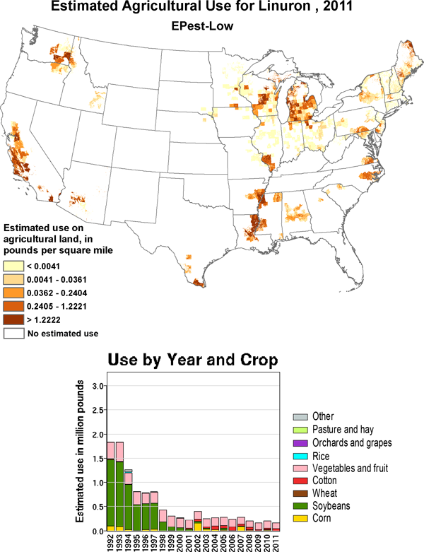 Linuron map of use, USA, 2011 (estimated)